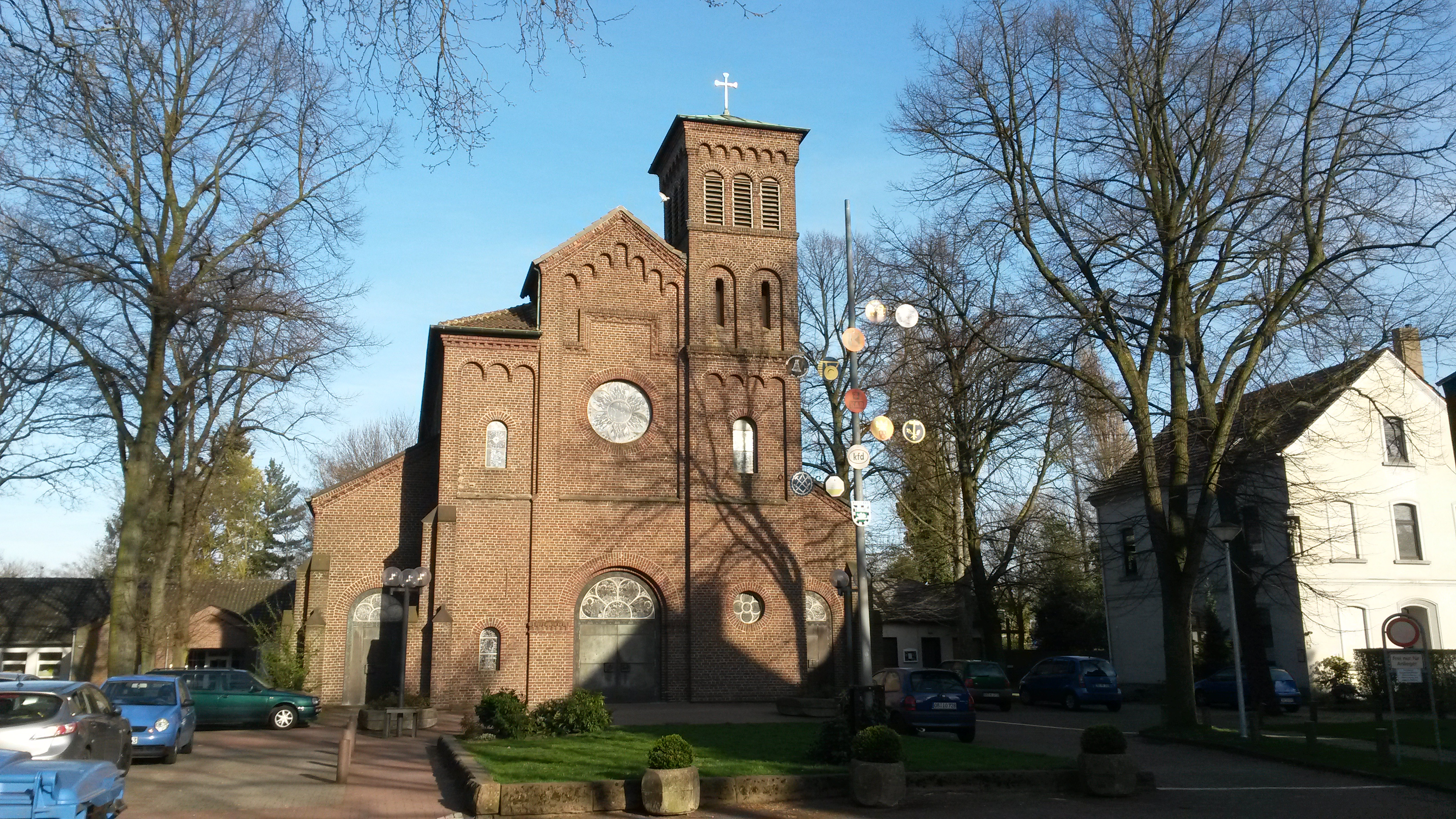 The Saint Anthony's Church in Alstaden, Oberhausen/Northrhine-Westphalia (Germany)